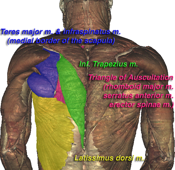 Posterior dissection of the Visible Human Male showing the triangle of auscultation. The borders and superficial contents of the triangle are highlighted and labeled.